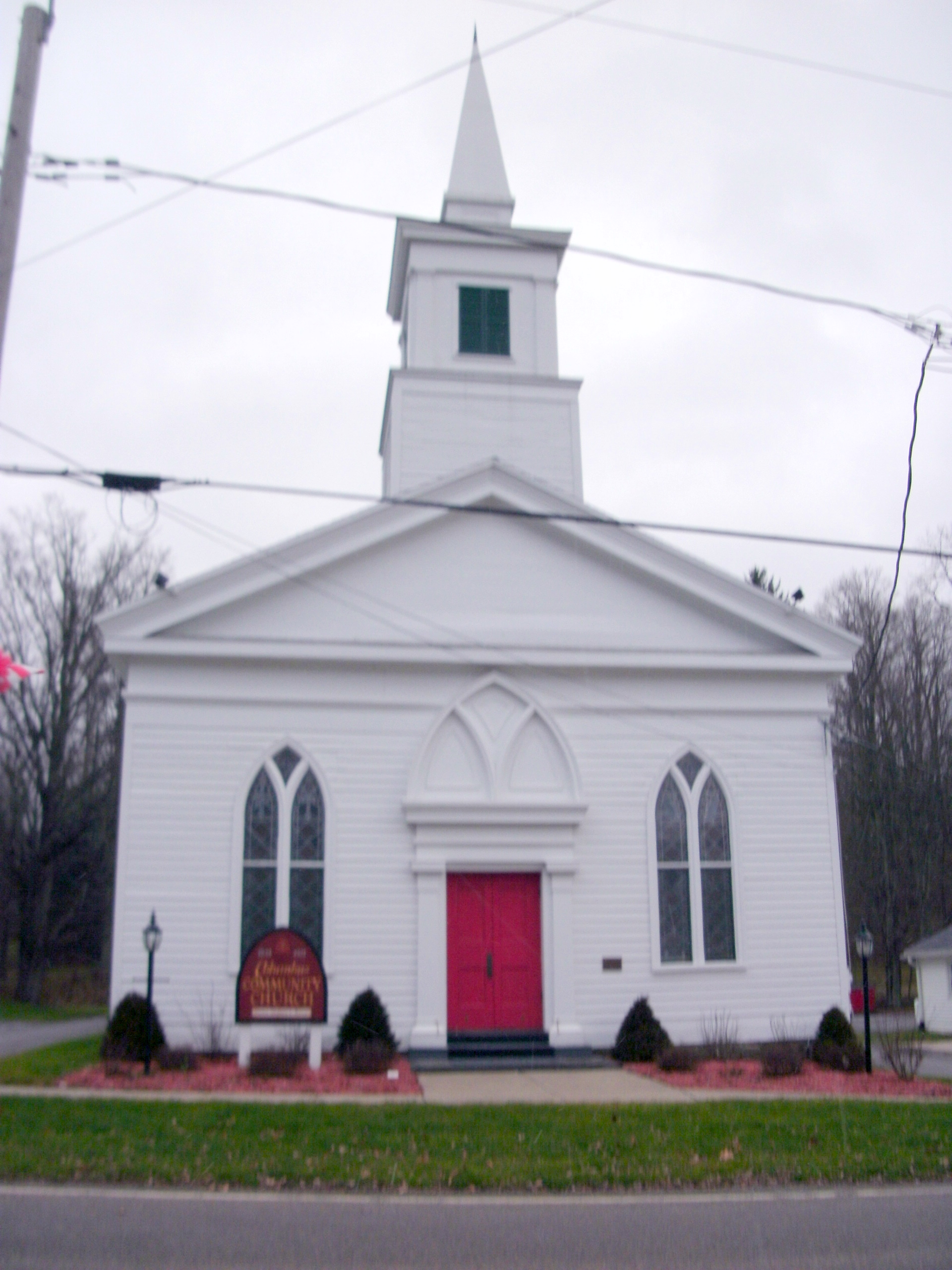 GE DIGITAL CAMERA Columbus, New York